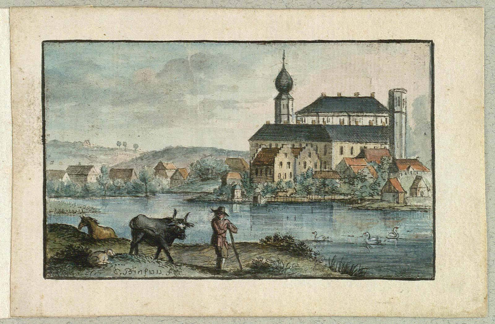 Drawings from engraver Gerhard Ludvig Lahde`s stambog, a sort of guestbook he had with him when travelling. A lot of friends and artists, some of them unknown today, wrote small greetings and made scetches in his stambog. There are drawings by F. Camradt, C. D. Fritsch, Hans Hansen, J. L. Lund, Elias Meyer, C. F. Stanley, Runge, Friedrich, Bertel Thorvaldsen and C.W. Eckersberg.